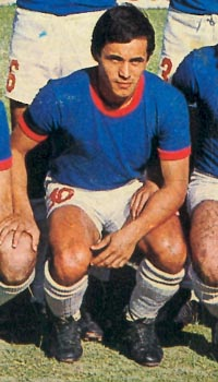 Raul de La Cruz during his time as a Tigre player in Argentina (1975-1978)